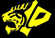 SLOHS Mascot/Logo